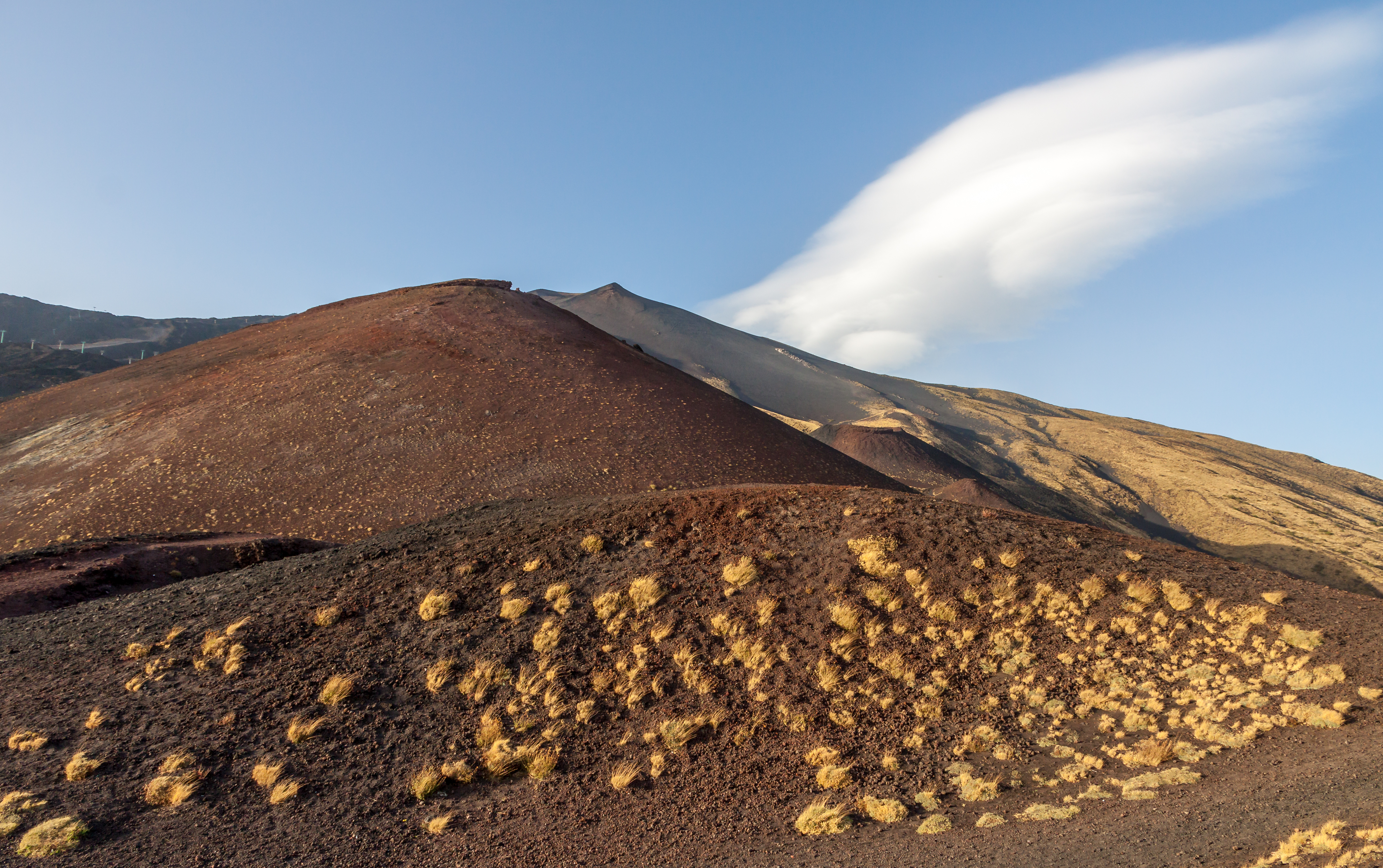 Silvestri craters, Mount Etna, Sicily.